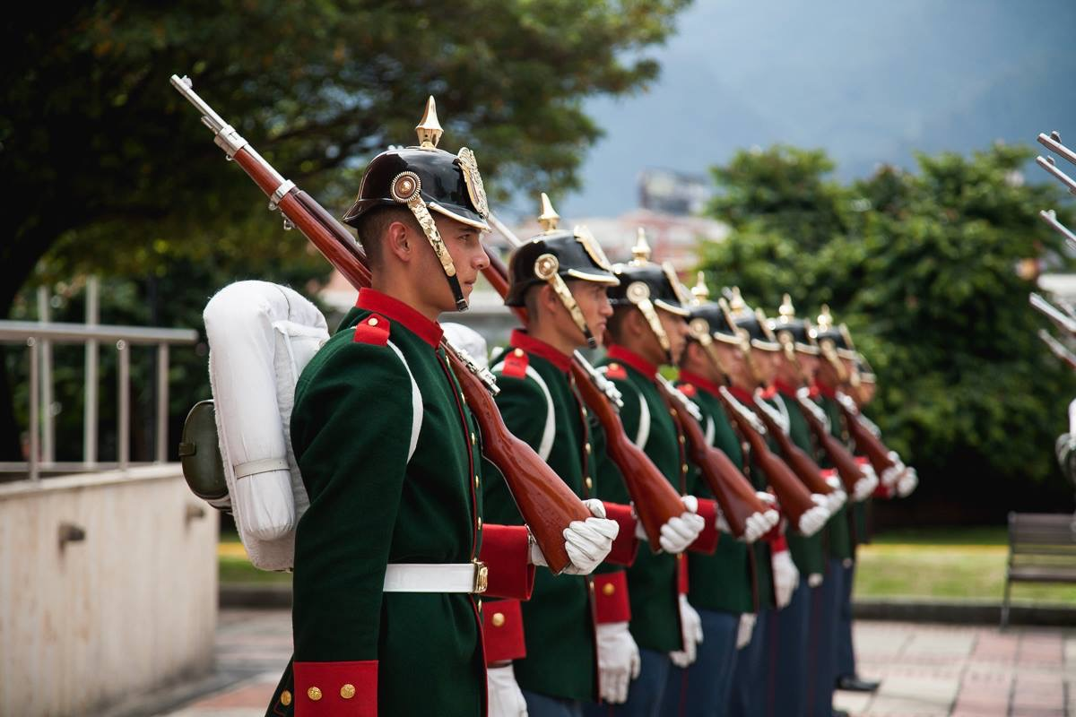 José María Córdova Military School Honor Guard wearing their ceremonial parade uniforms with spiked Prussian "Pickelhaube" helmets.